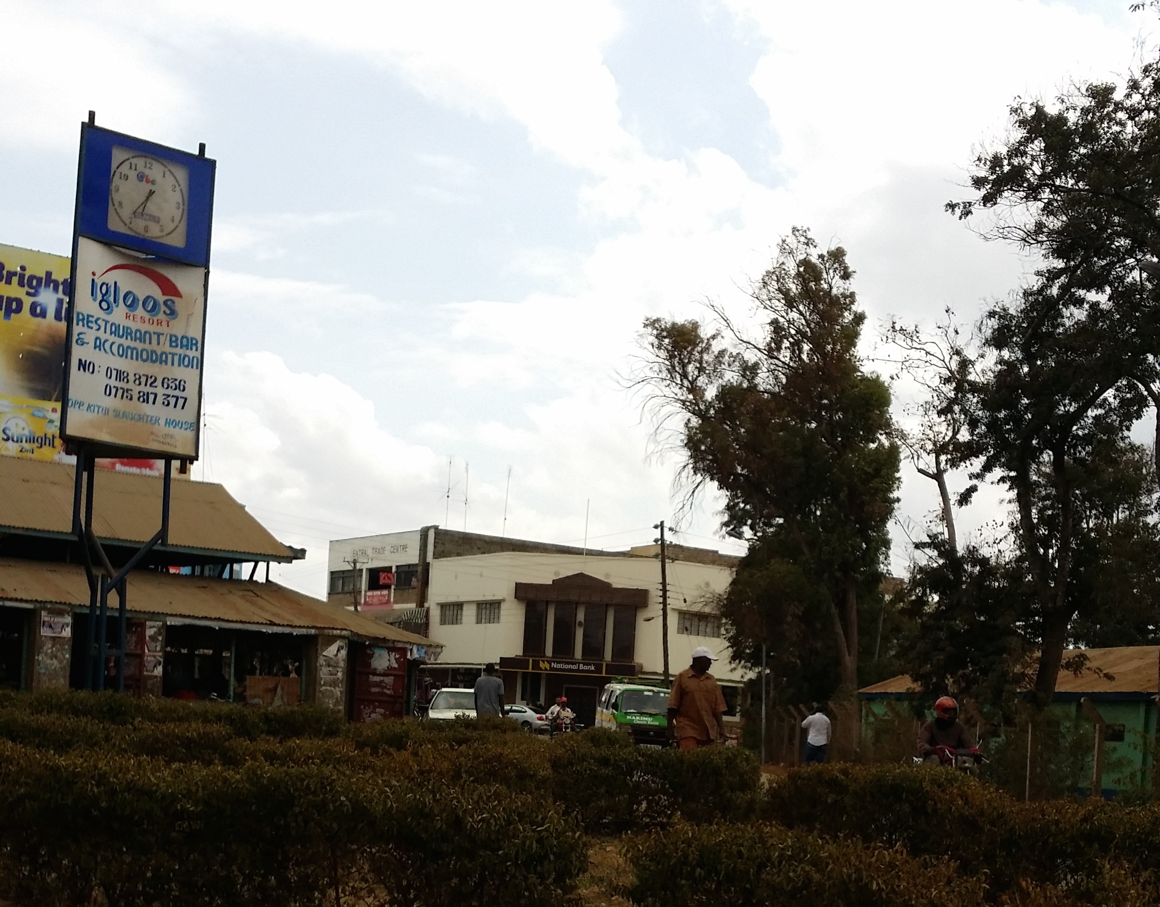 Kitui TownKiswahili: Sehemu ya Kitui Town